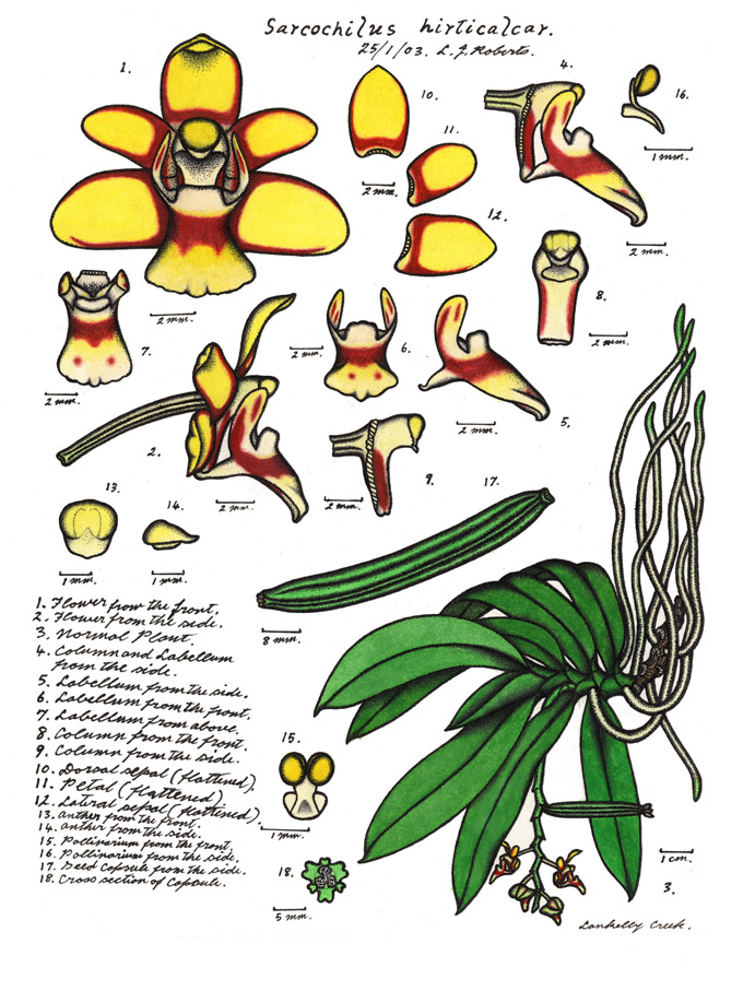 This image is one of a series by Lewis Roberts